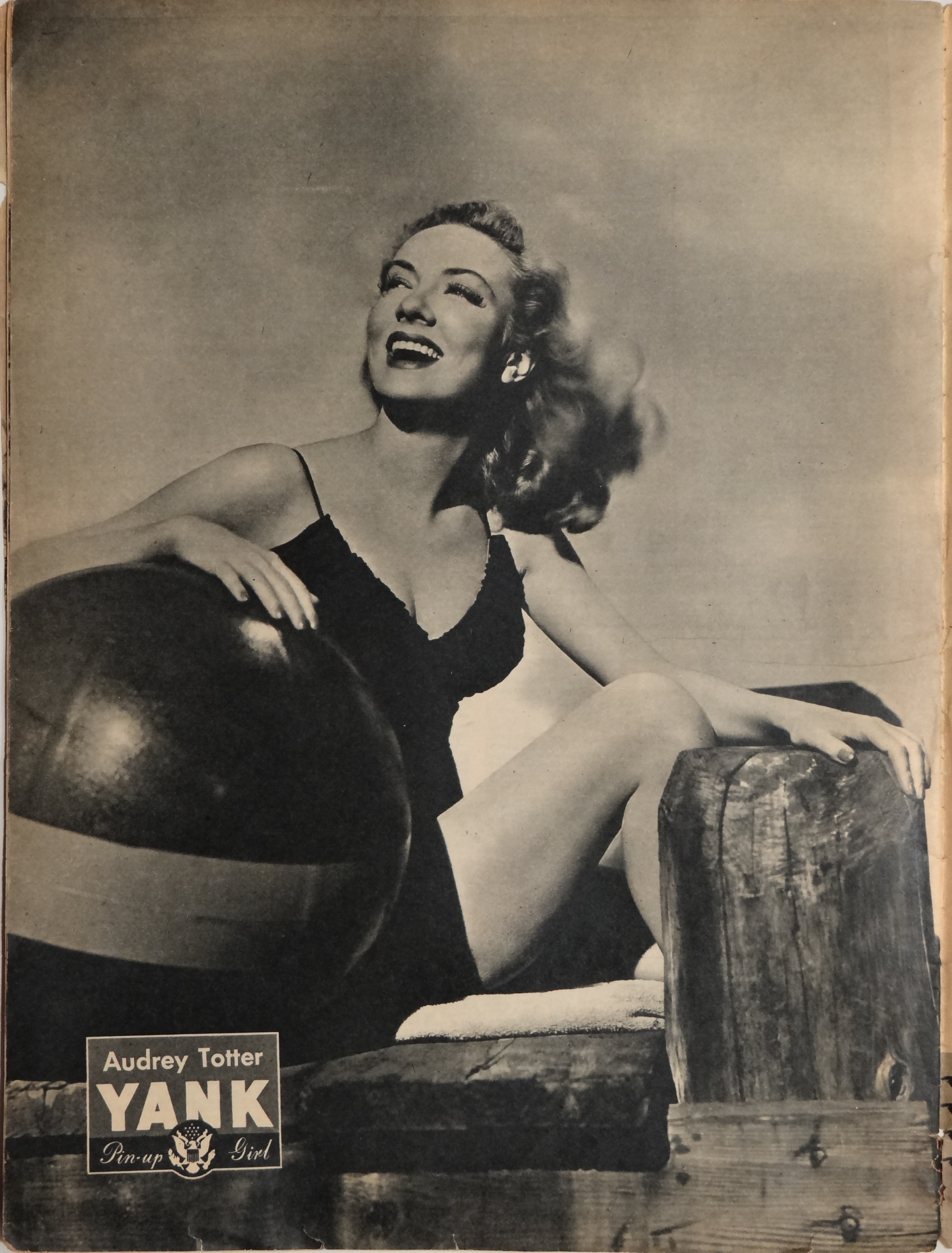 Audrey Totter pin-up from Yank, The Army Weekly, August 1945